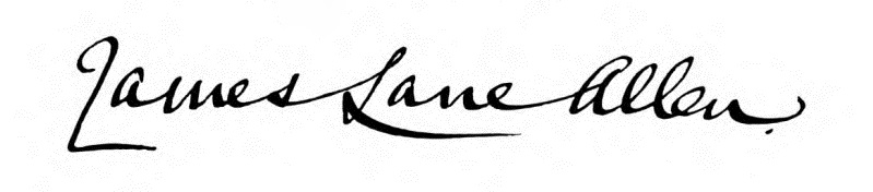 James Lane Allen